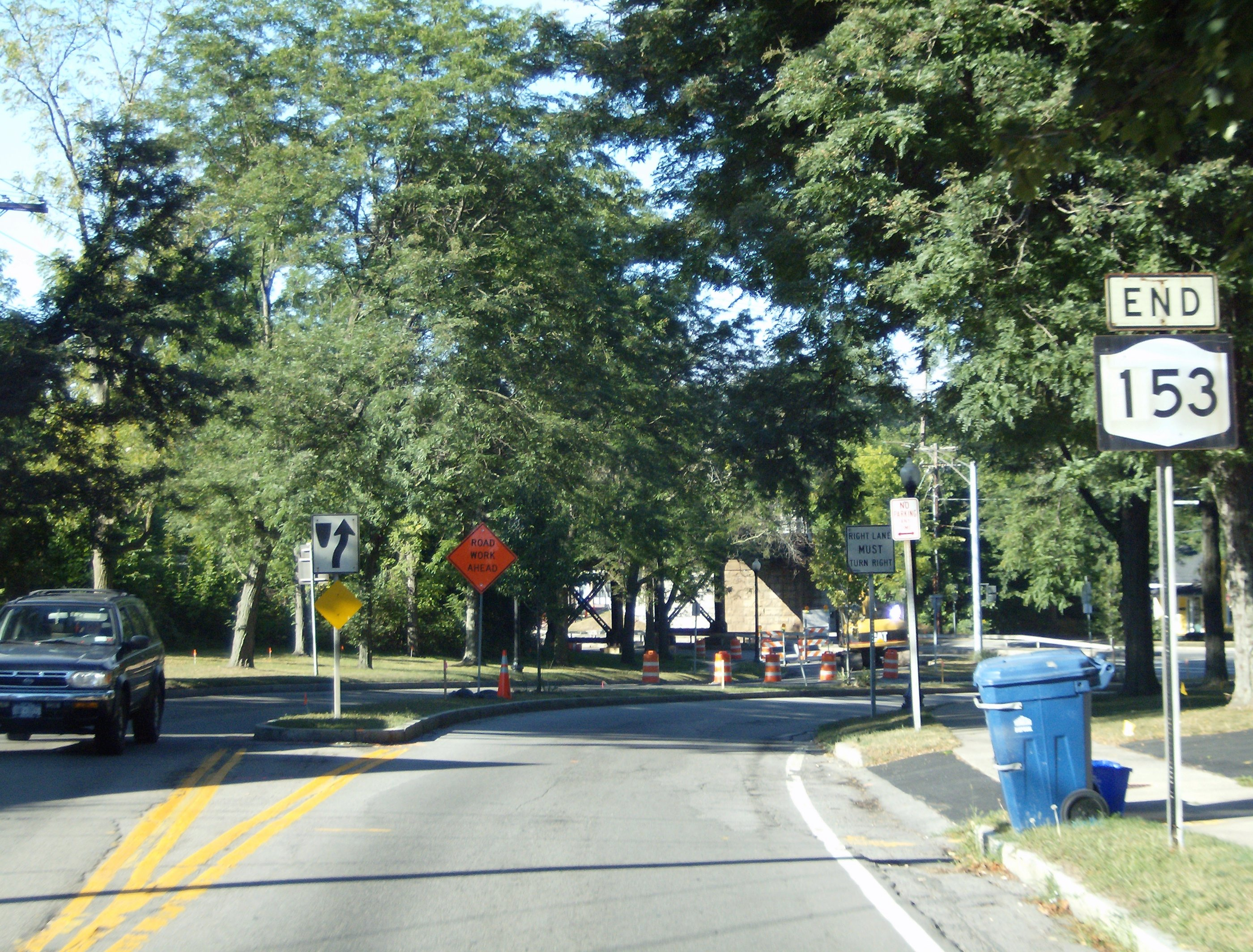 Approaching the southern terminus of New York State Route 153 in Pittsford.